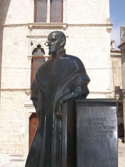 Statue of Franjo Petris (Franciscus Patricius) in Cres (island of Cherso).